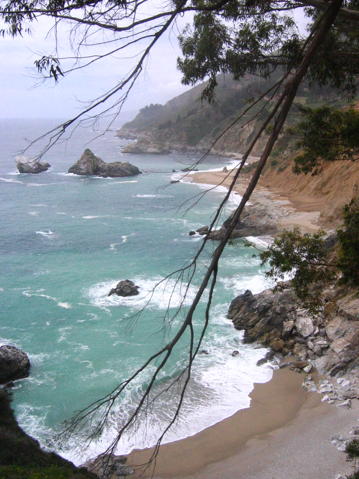 Description : Pfeiffer Big Sur State Park, California, april 2006 Author : own work, Urban. I took this picture on April 2006.